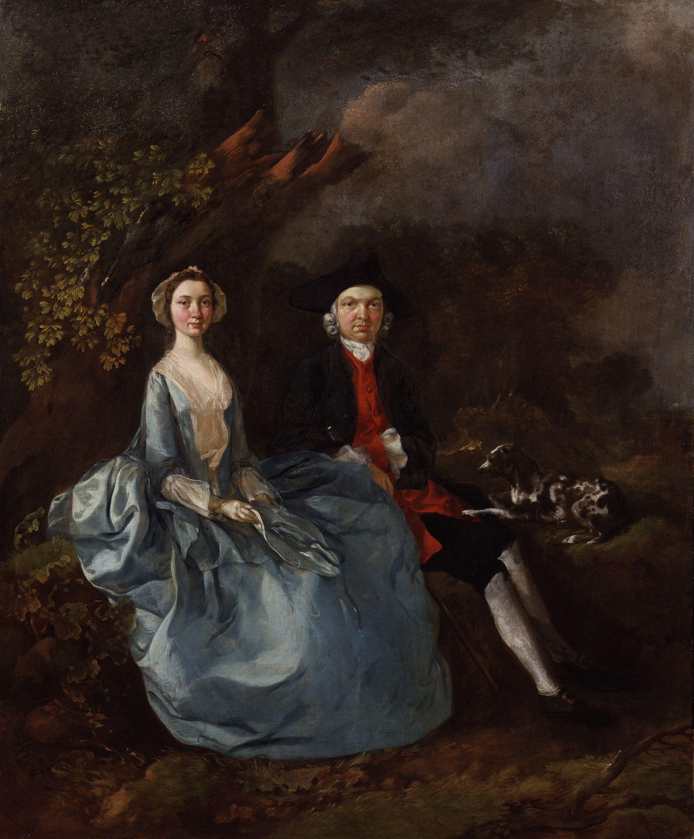 Portrait of Sarah Kirby (née Bull) and John Joshua Kirby